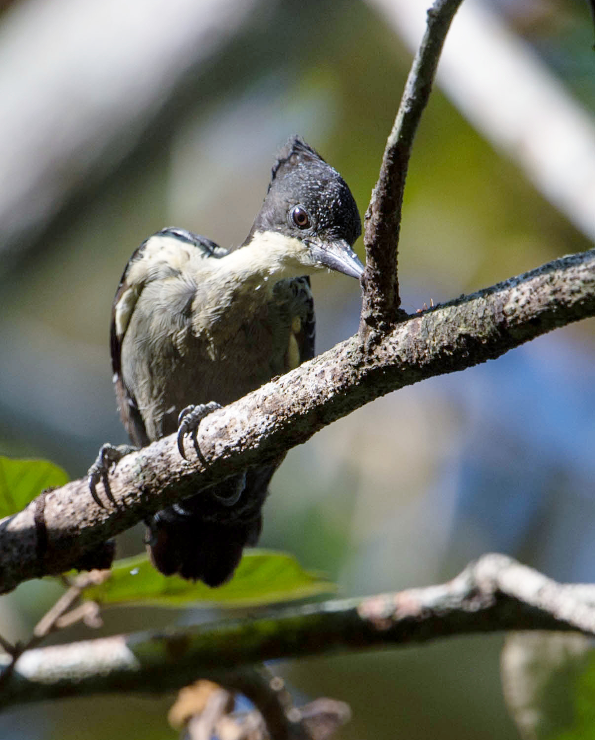 Male of Heart-spotted Woodpecker (Hemicircus canente) at Kaeng Krachan, Phetchaburi, Thailand